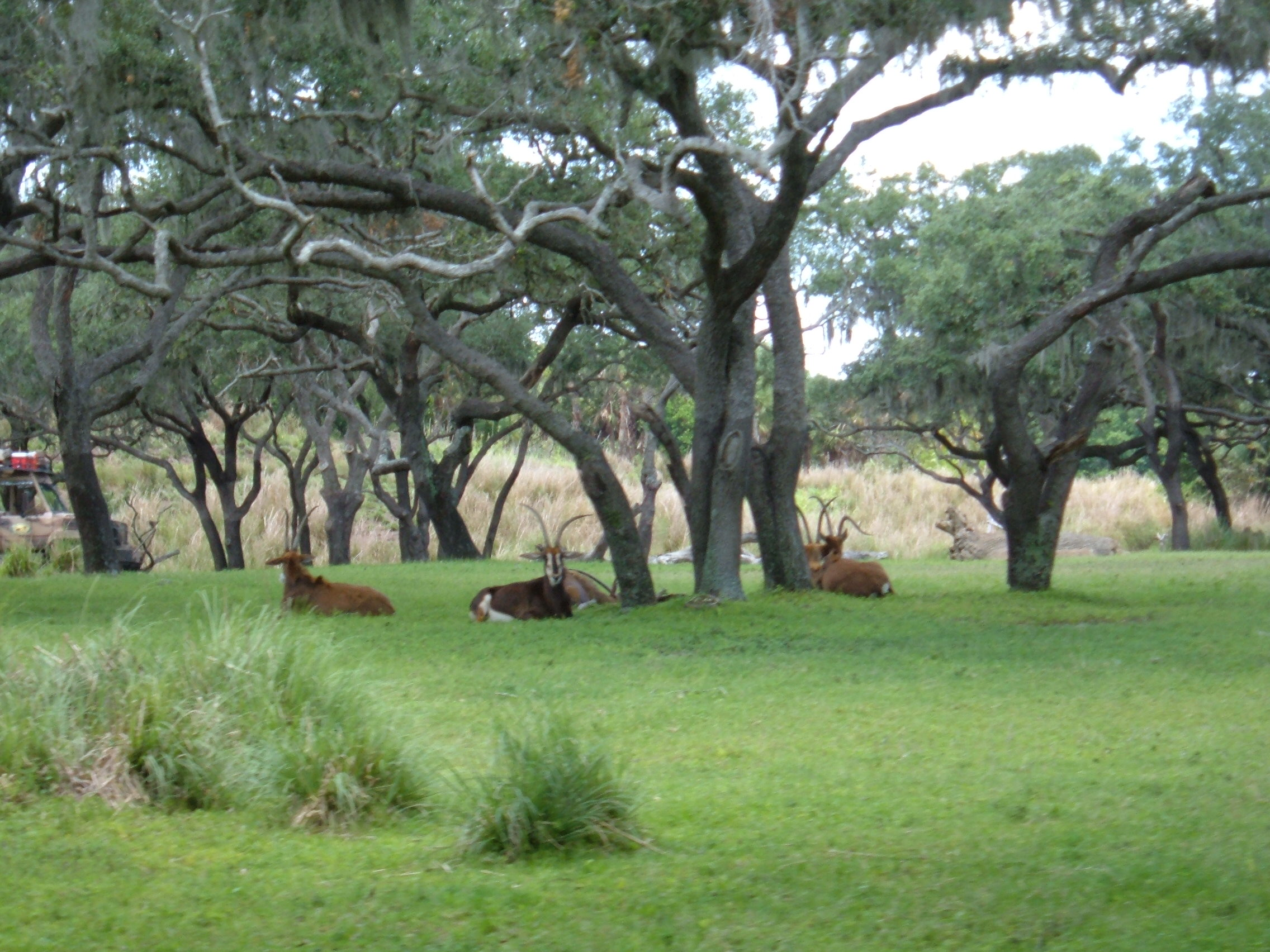 On Kilimanjaro Safaris in the Africa section of Disney's Animal Kingdom at the Walt Disney World Resort near Orlando, Florida.